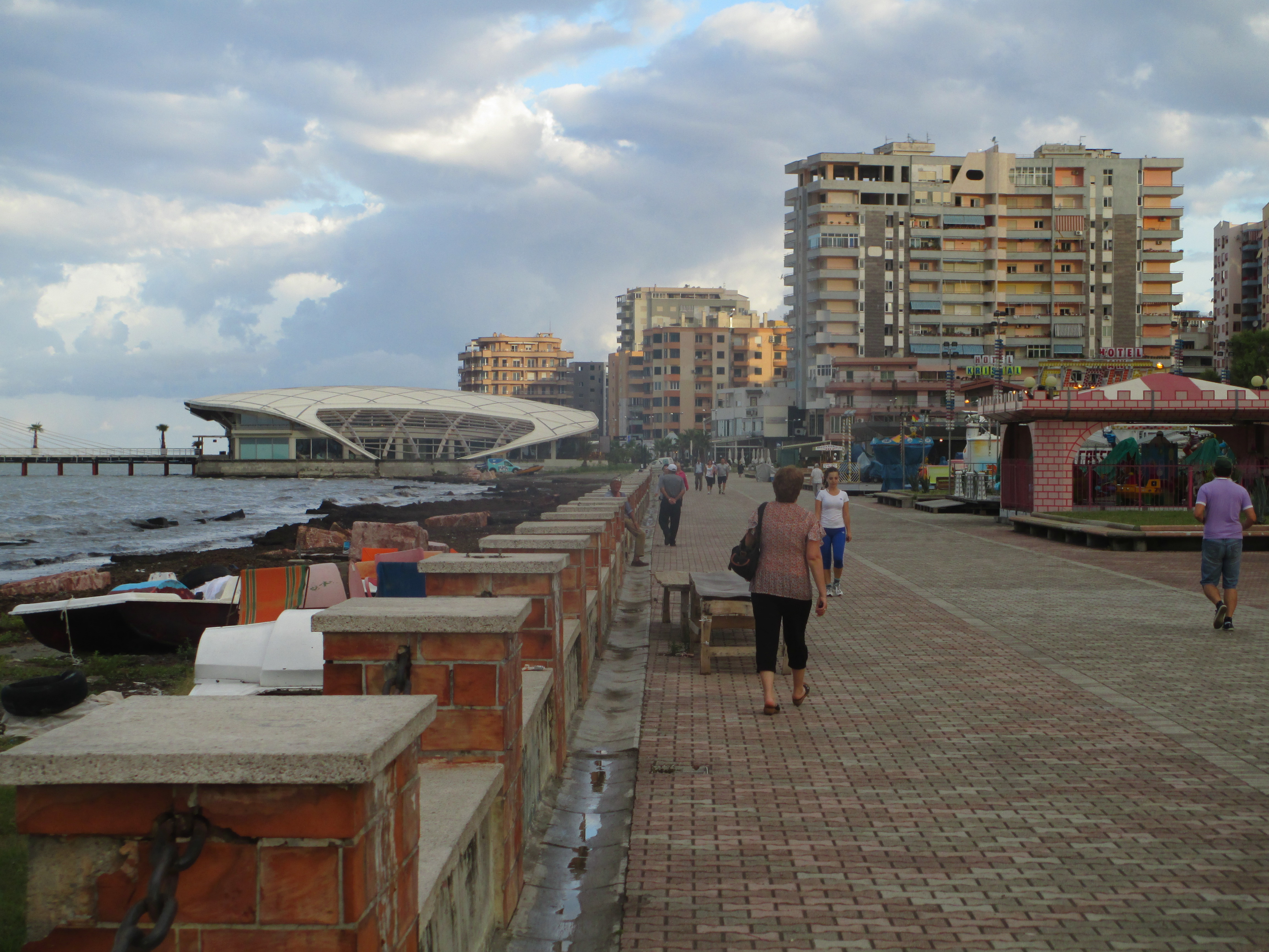 Durrës beach promenade